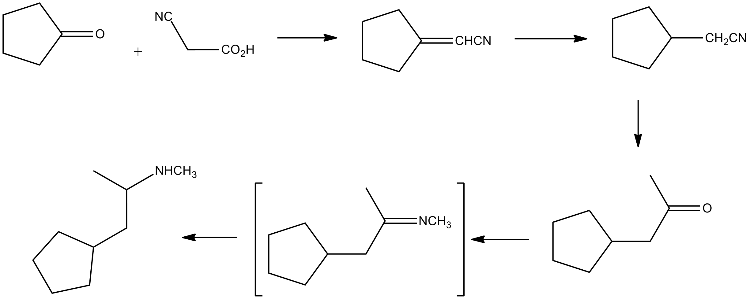 Nasal decongestant.